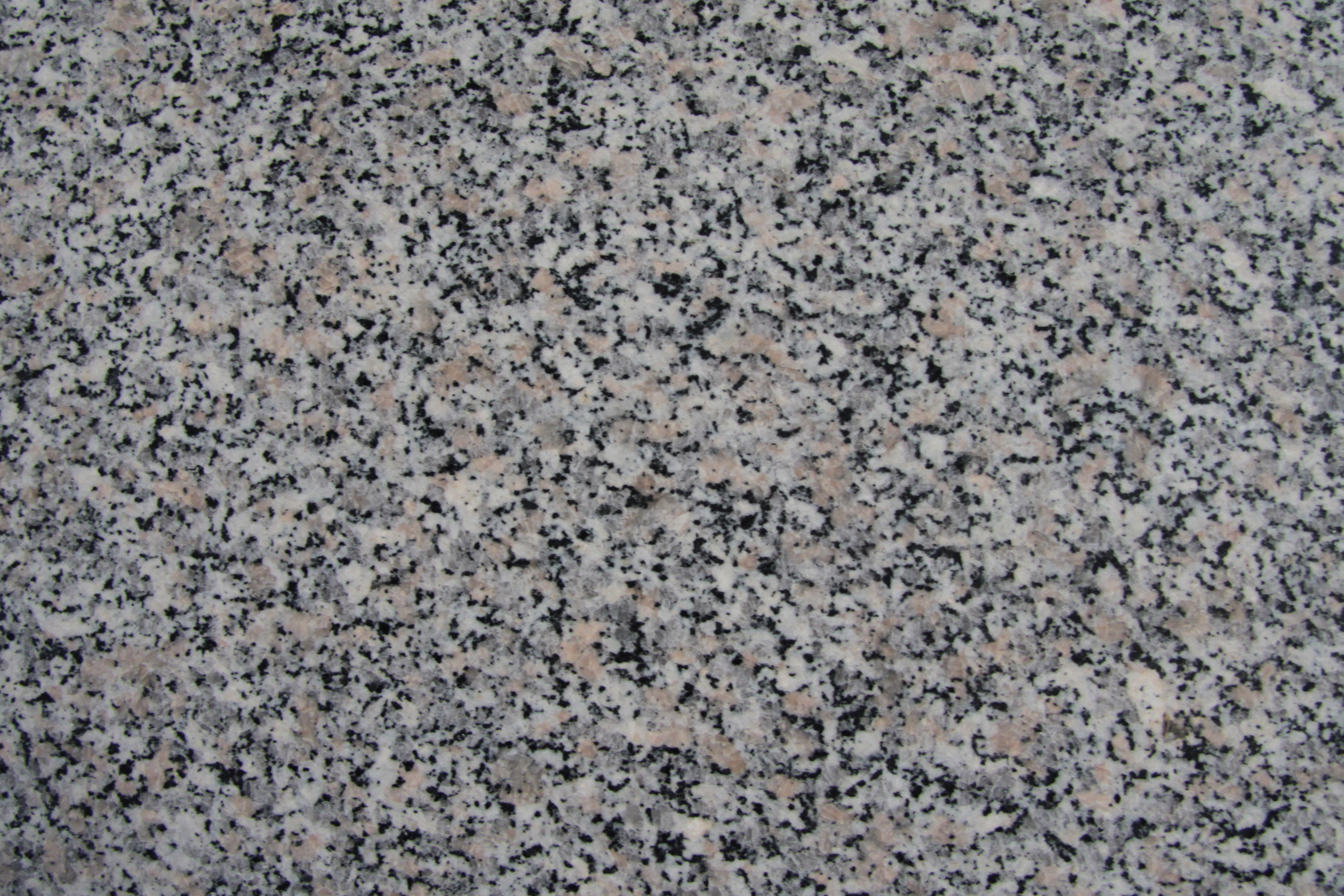 Rosa Beta Granit, Italy, Sardinien (25 x 30 cm)